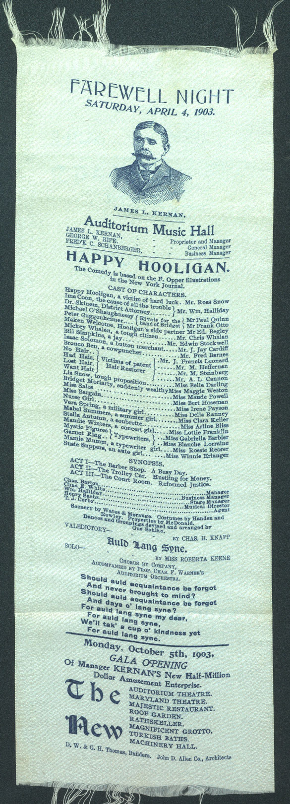 Theatre ribbon for play Happy Hooligan based on the comic strip of the same name; at Auditorium Theatre in Baltimore, Maryland